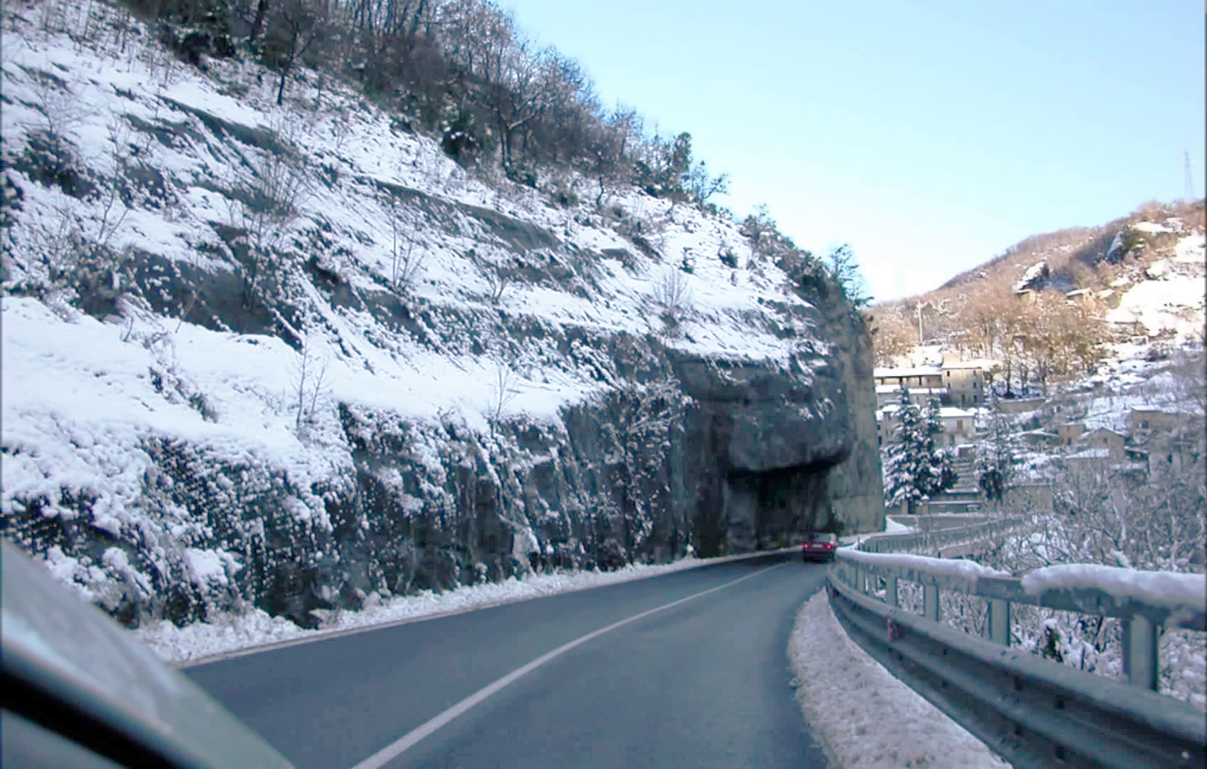 Picture taken on State Road n. 4 "Via Salaria", from the moving car.